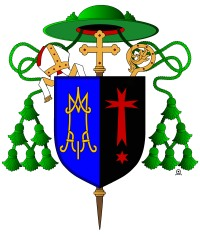 Coat of arms of Emanuel Jan Křtitel Schöbel, Bishop of Litoměřice